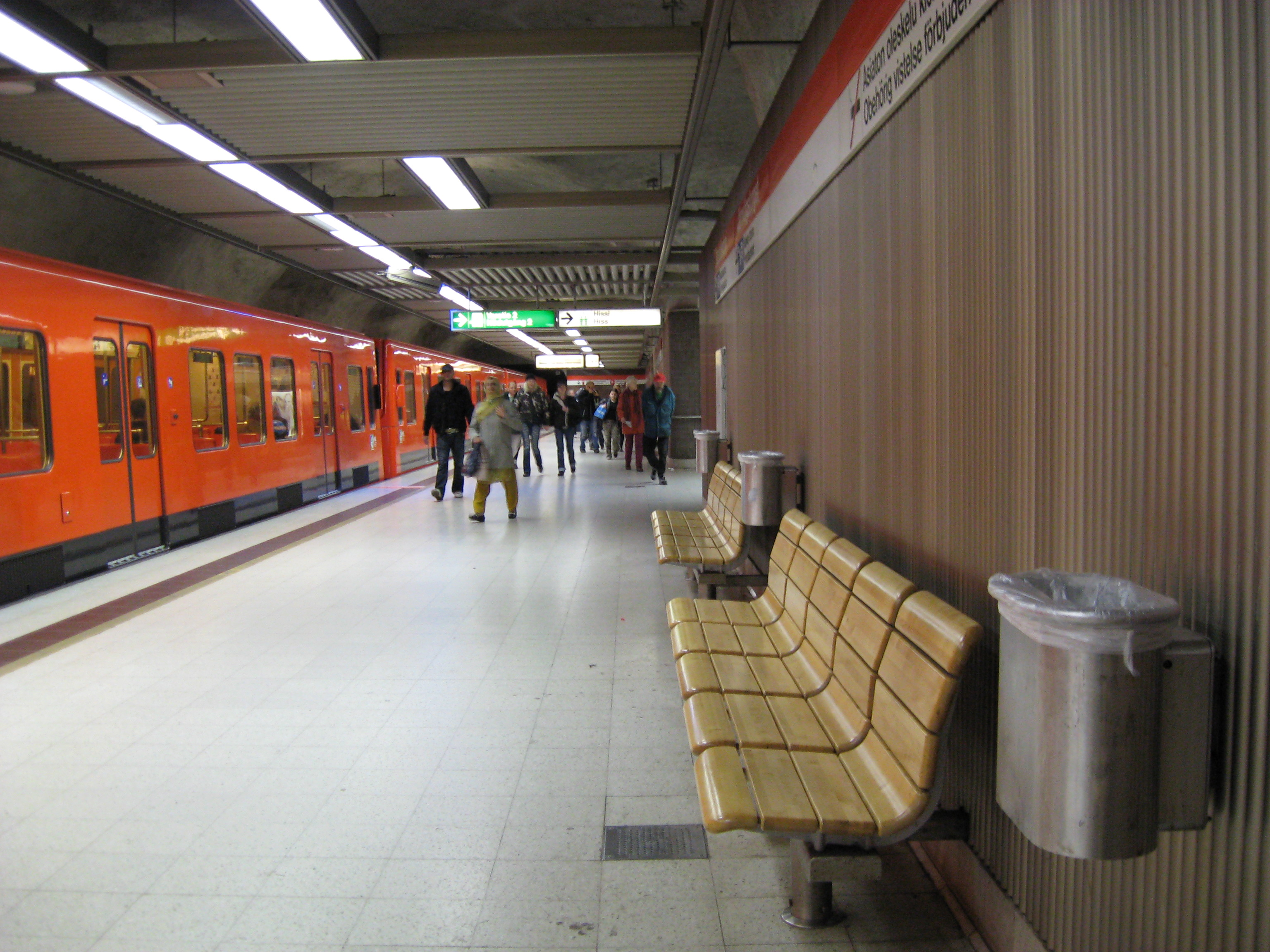 Rautatientori metro station